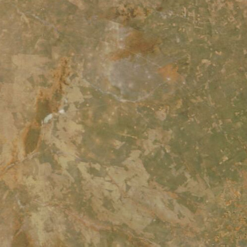 Morokweng crater area as seen from the satellite